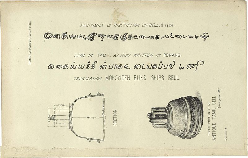 Facsimile of inscription on Tamil bell